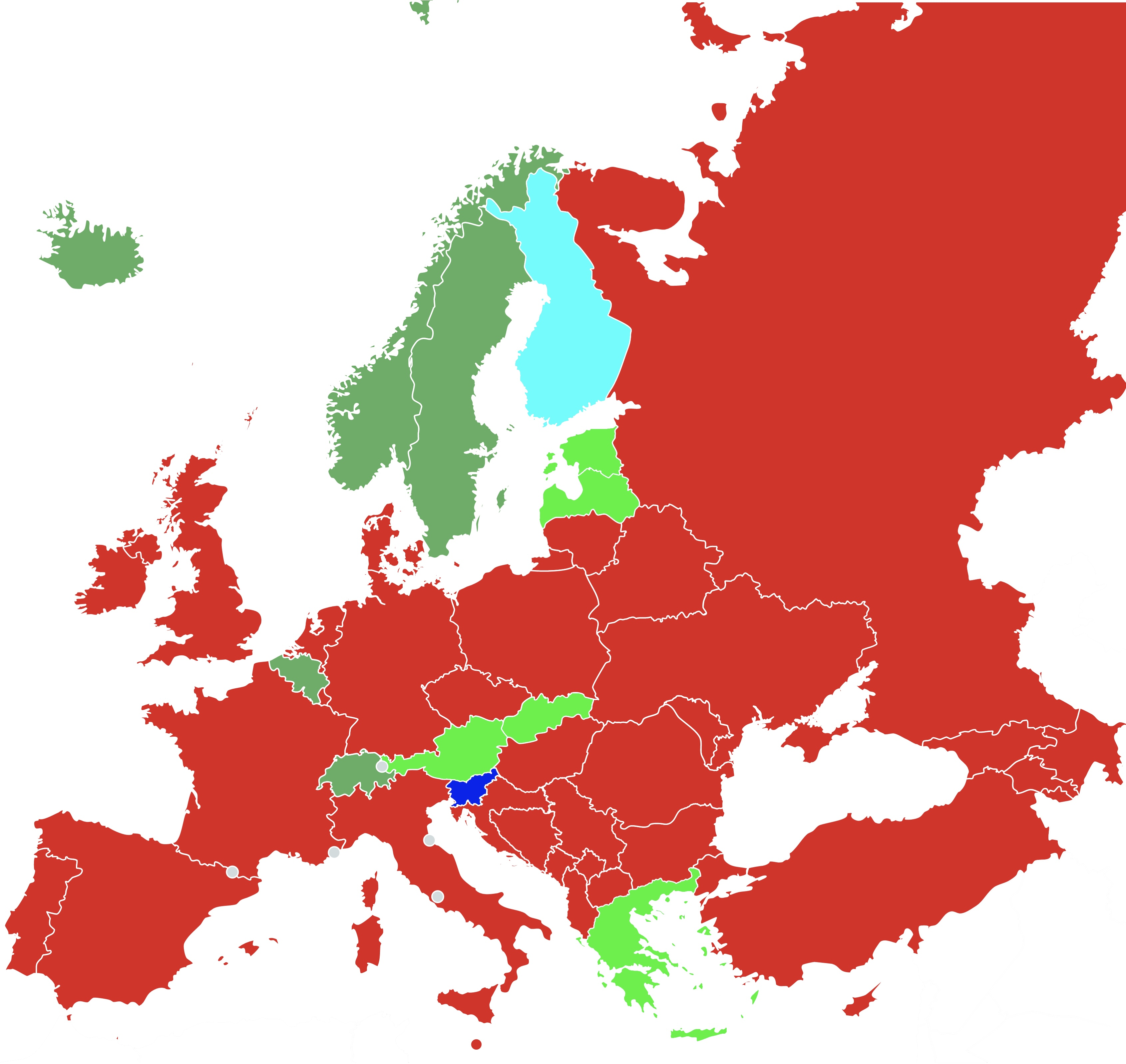 Legal requirements for ritual slaughter in Europe 2018. Stunning not required Post-cut stunning required Simultaneous stunning required Pre-cut stunning required Ritual slaughter banned No data